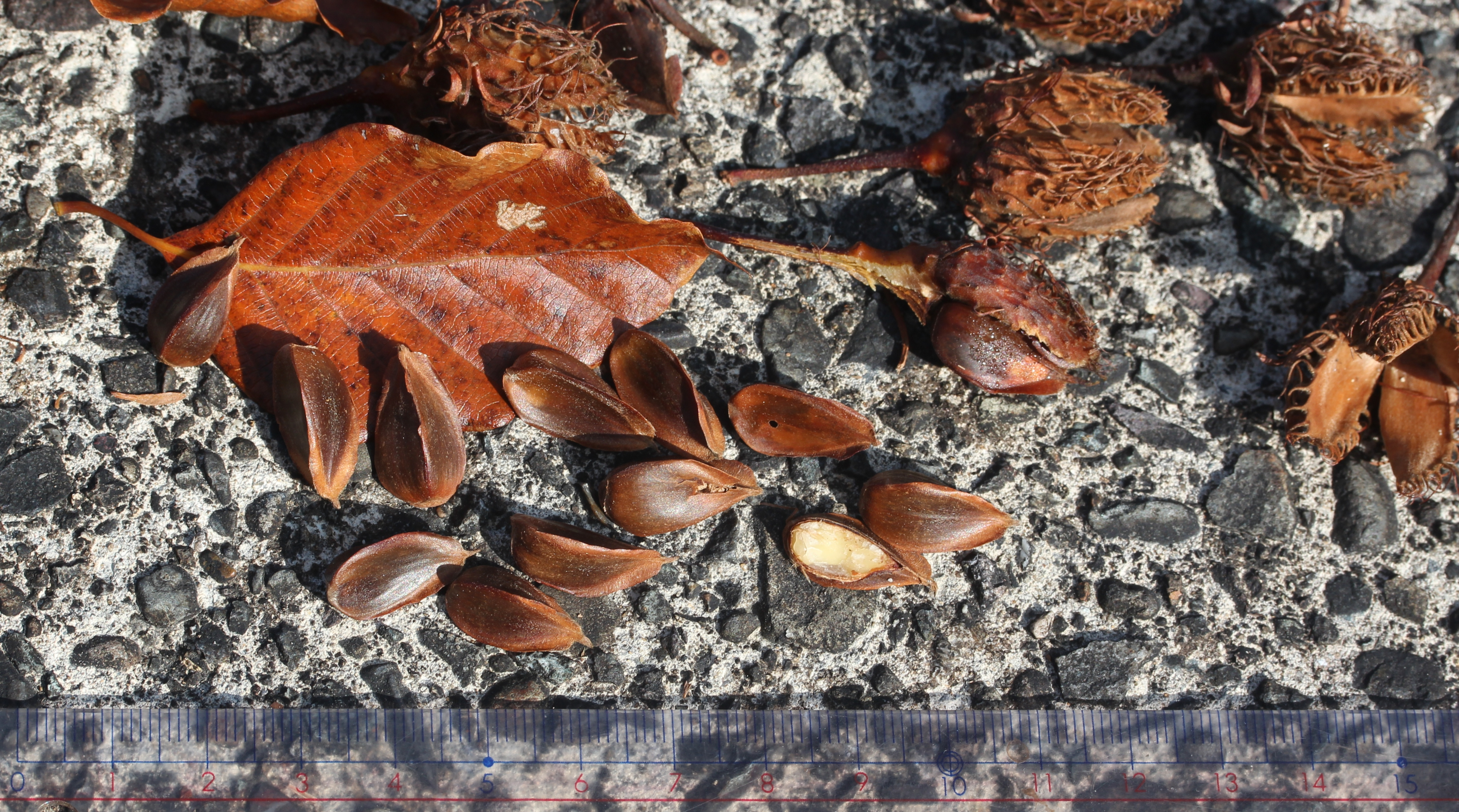 Fruits with two nuts of Fagus crenata, in Mount Kanmuri, Fukui prefecture, Japan. Scale is millimeter.